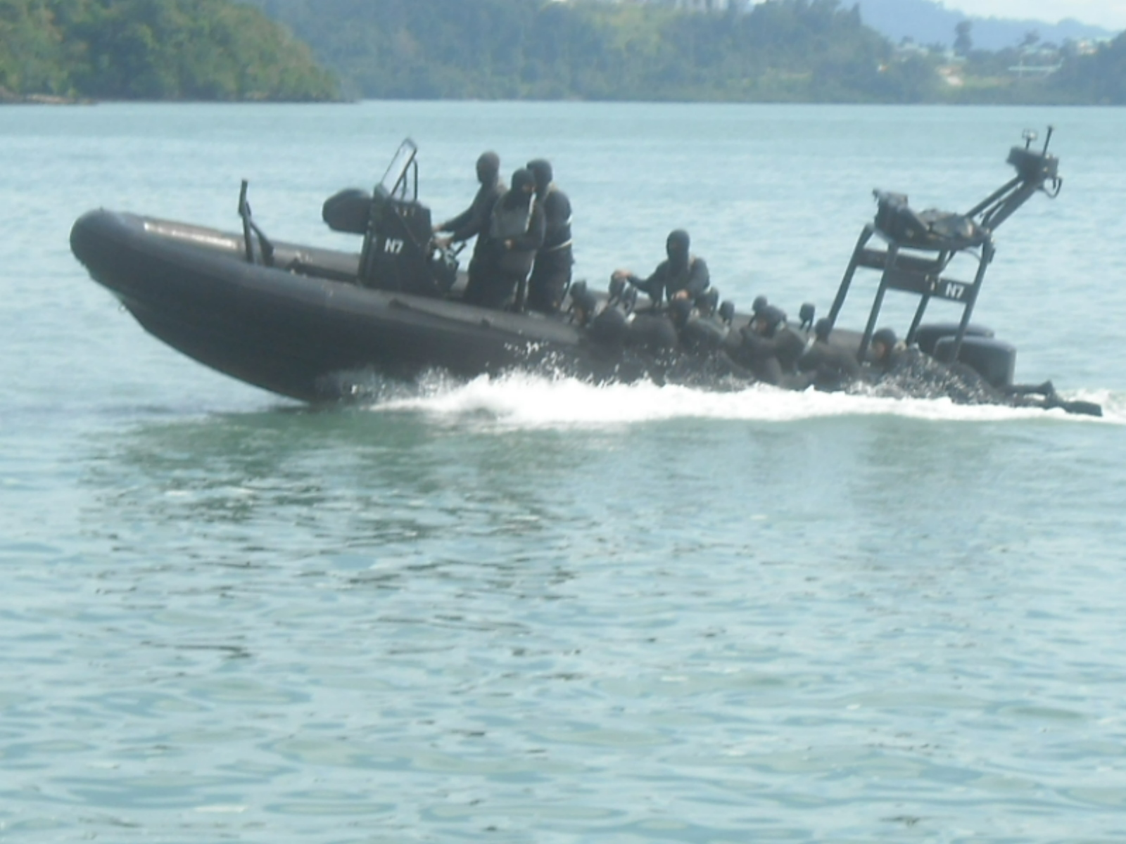 The PASKAL divers ready to jumps using the casting technique from a speeding boat during the LIMA 2011, Langkawi, Malaysia.